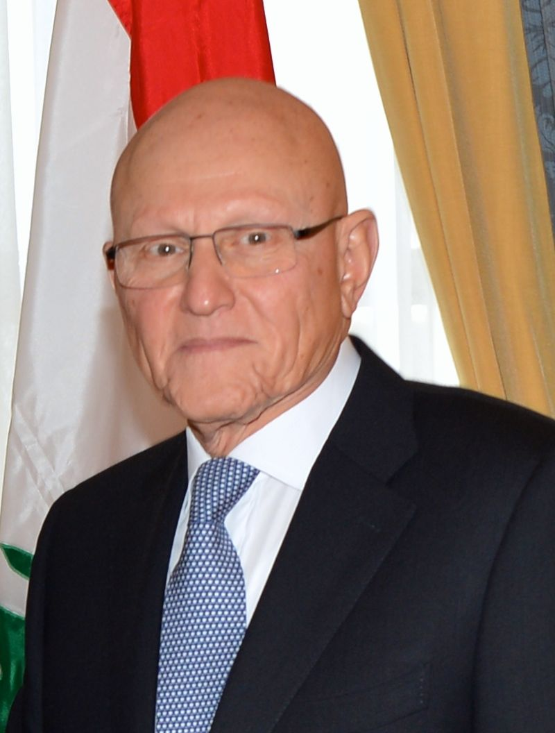 U.S. Secretary of State John Kerry (not shown) greets Lebanese Prime Minister Tammam Salam before their bilateral meeting on the margins of the 69th session of the United Nations General Assembly in New York City on September 26, 2014. [State Department photo/ Public Domain]